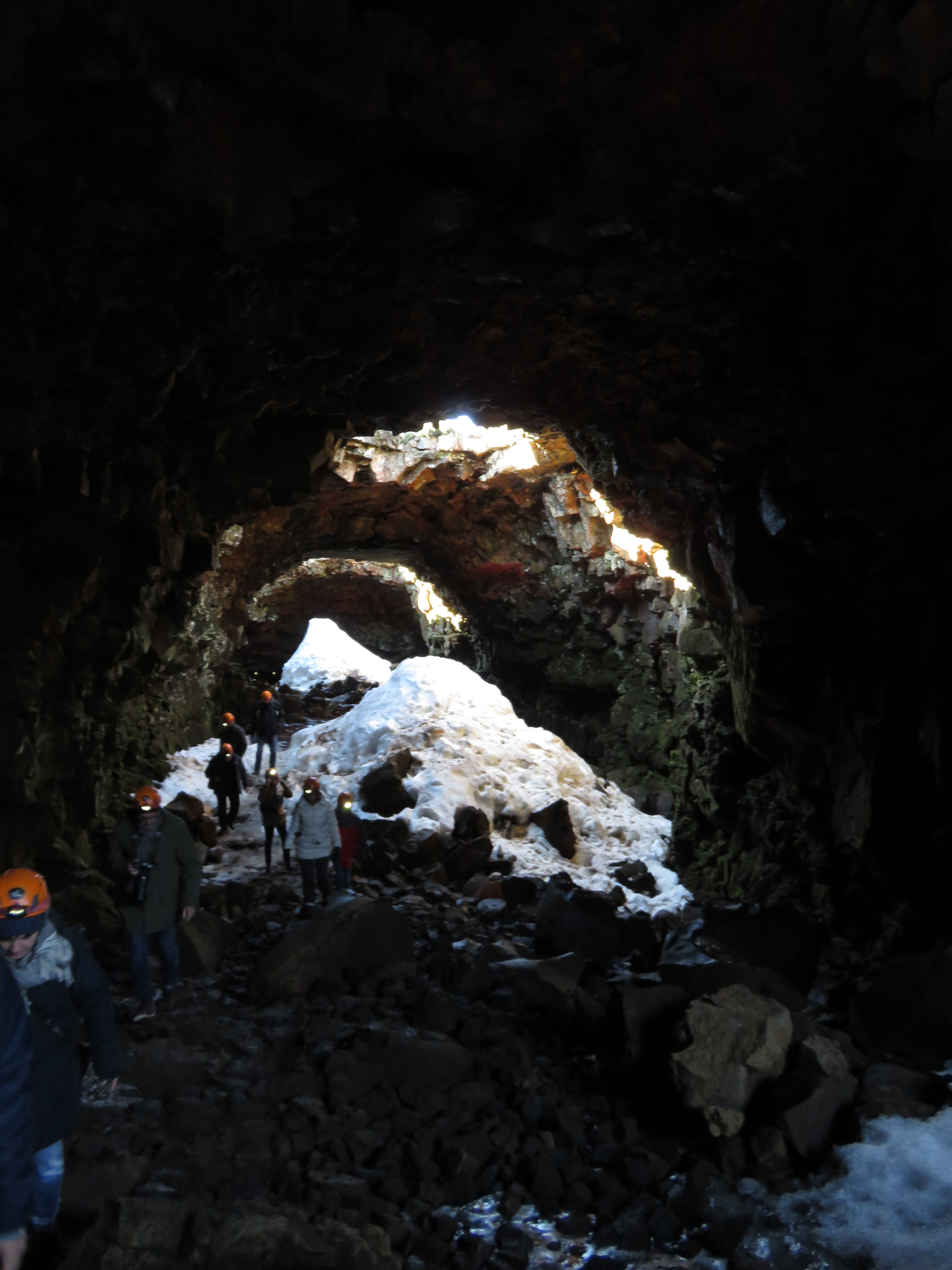 Skylights in Raufarhólshellir lava tube in Iceland